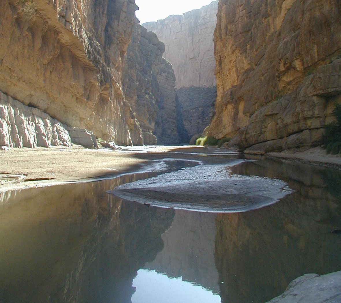 The Rio Grande, separating Mexico from the U.S., within the massive 1,500 foot high walls of Santa Elena Canyon.